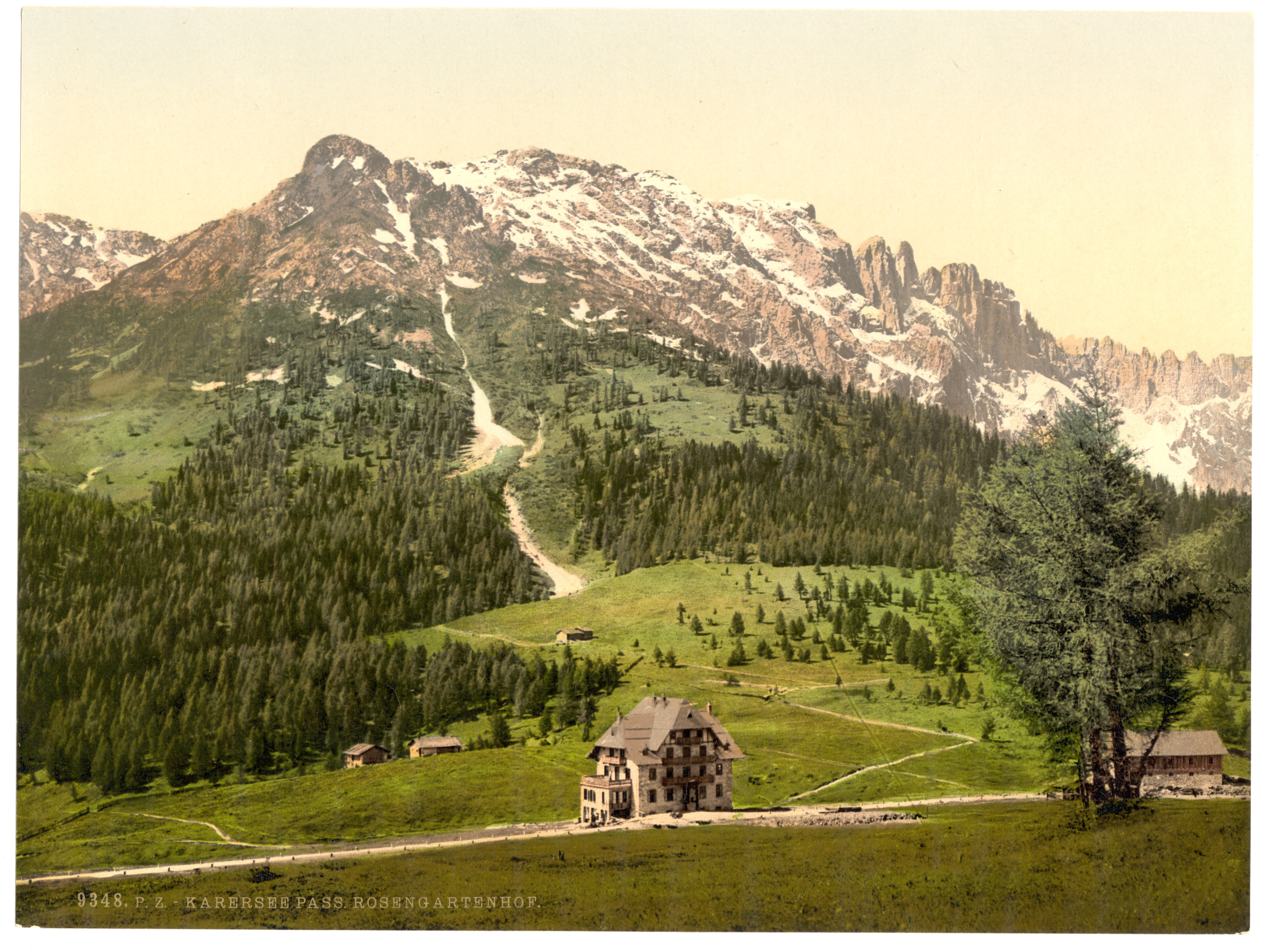 Forms part of: Views of the Austro-Hungarian Empire in the Photochrom print collection.; Title from the Detroit Publishing Co., Catalogue J-foreign section, Detroit, Mich. : Detroit Publishing Company, 1905.; Print no. "9348".